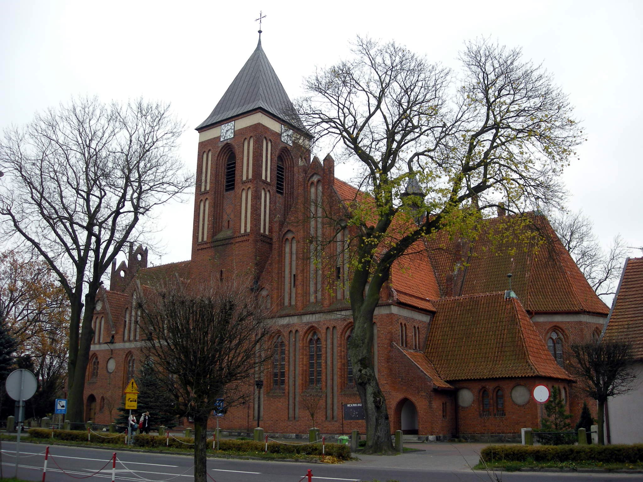 The church in Czersk, Poland.